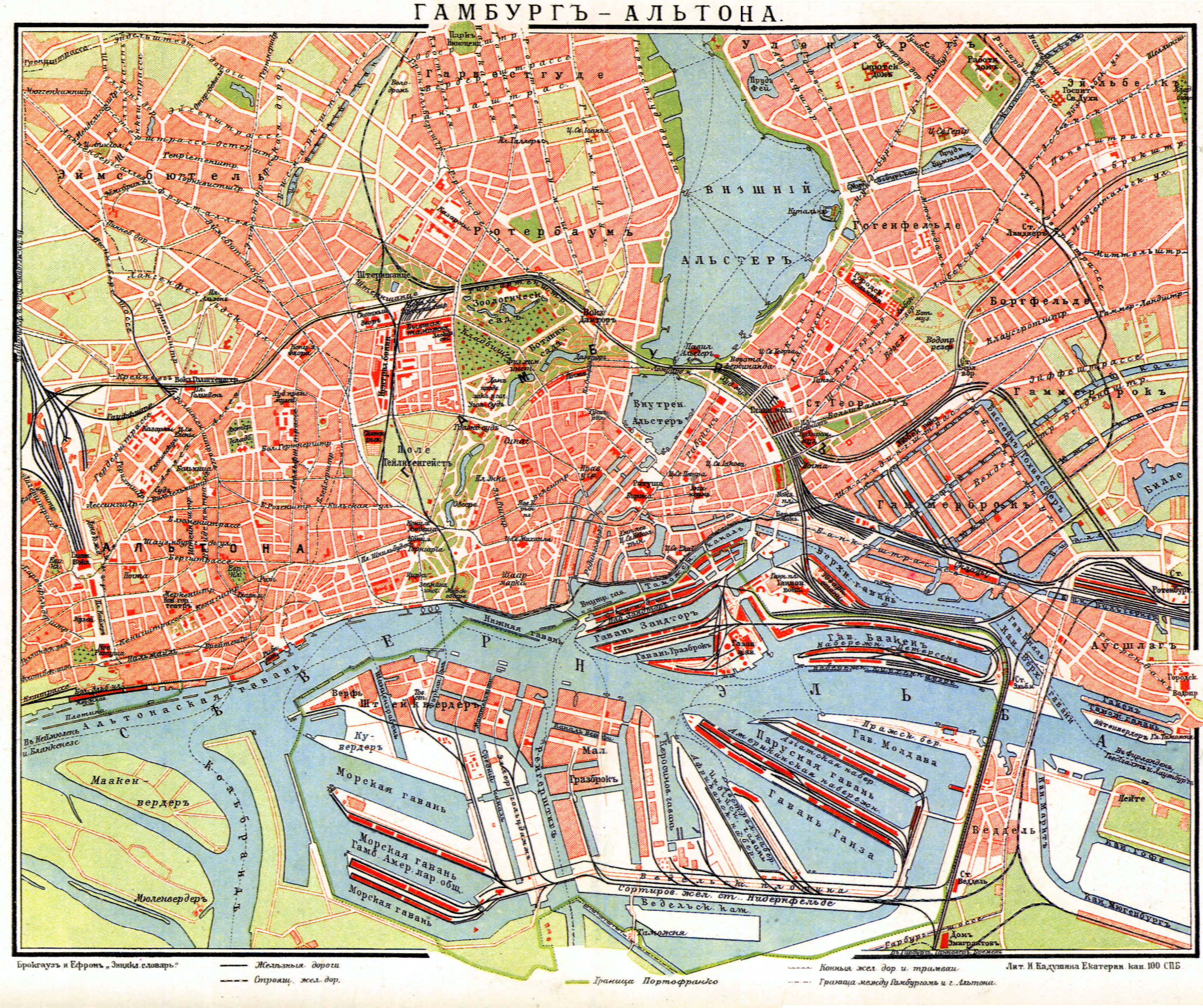 Illustration from Brockhaus and Efron Encyclopedic Dictionary (1890—1907)